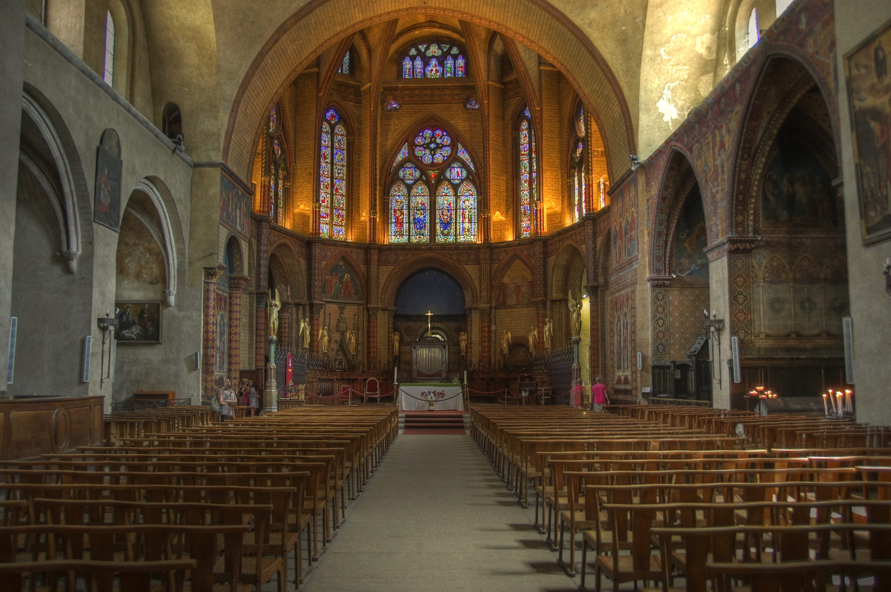 Cathédrale Saint-Étienne de Cahors